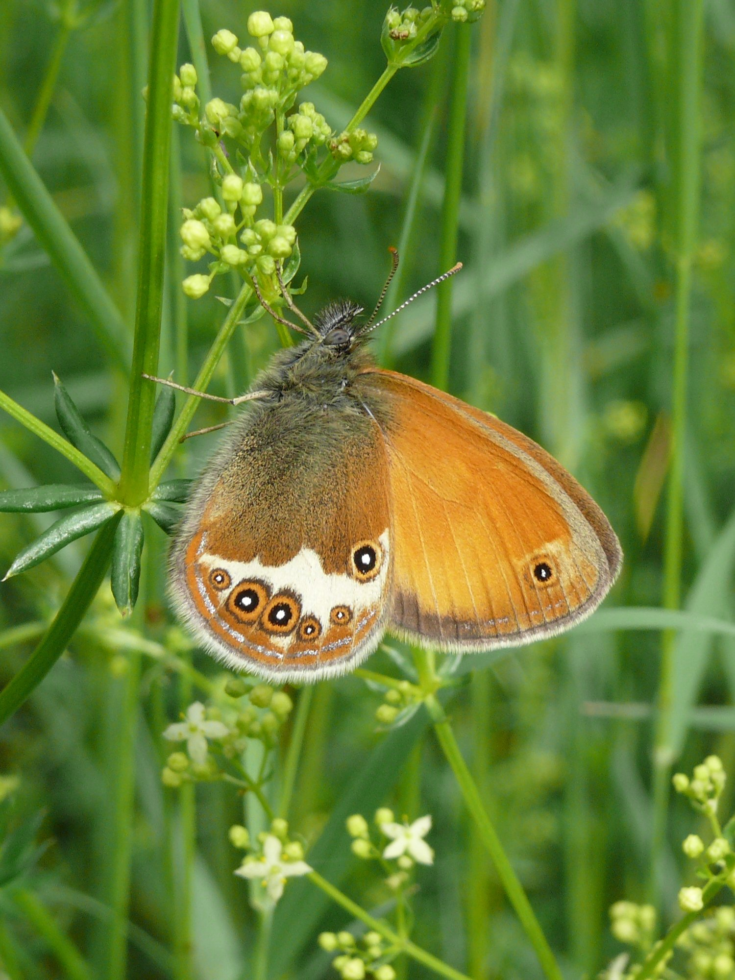 Pearly Heath, Munich (district), Germany